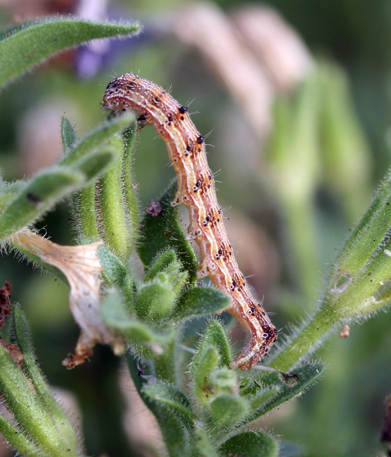 Heliothis virescens Fabricius Host: petunia Petunia spp. Juss. Common Name: tobacco budworm Photographer: Whitney Cranshaw, Colorado State University, United States Descriptor: Larva(e) Description: larvae resting among petunia buds Image taken in: United States